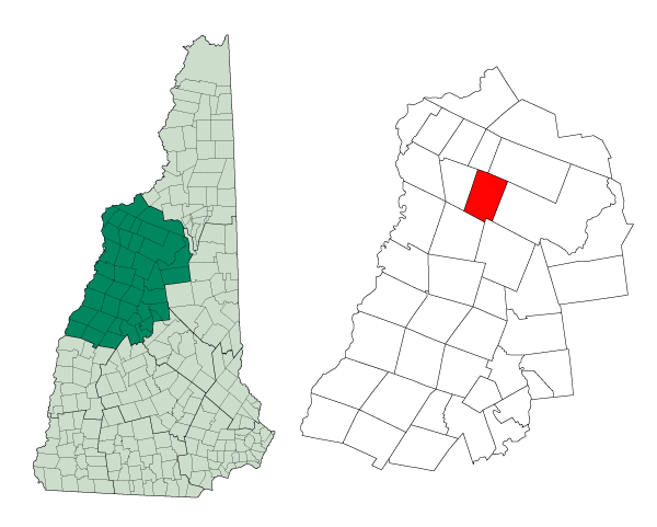 Map of a municipality in Belknap County, New Hampshire